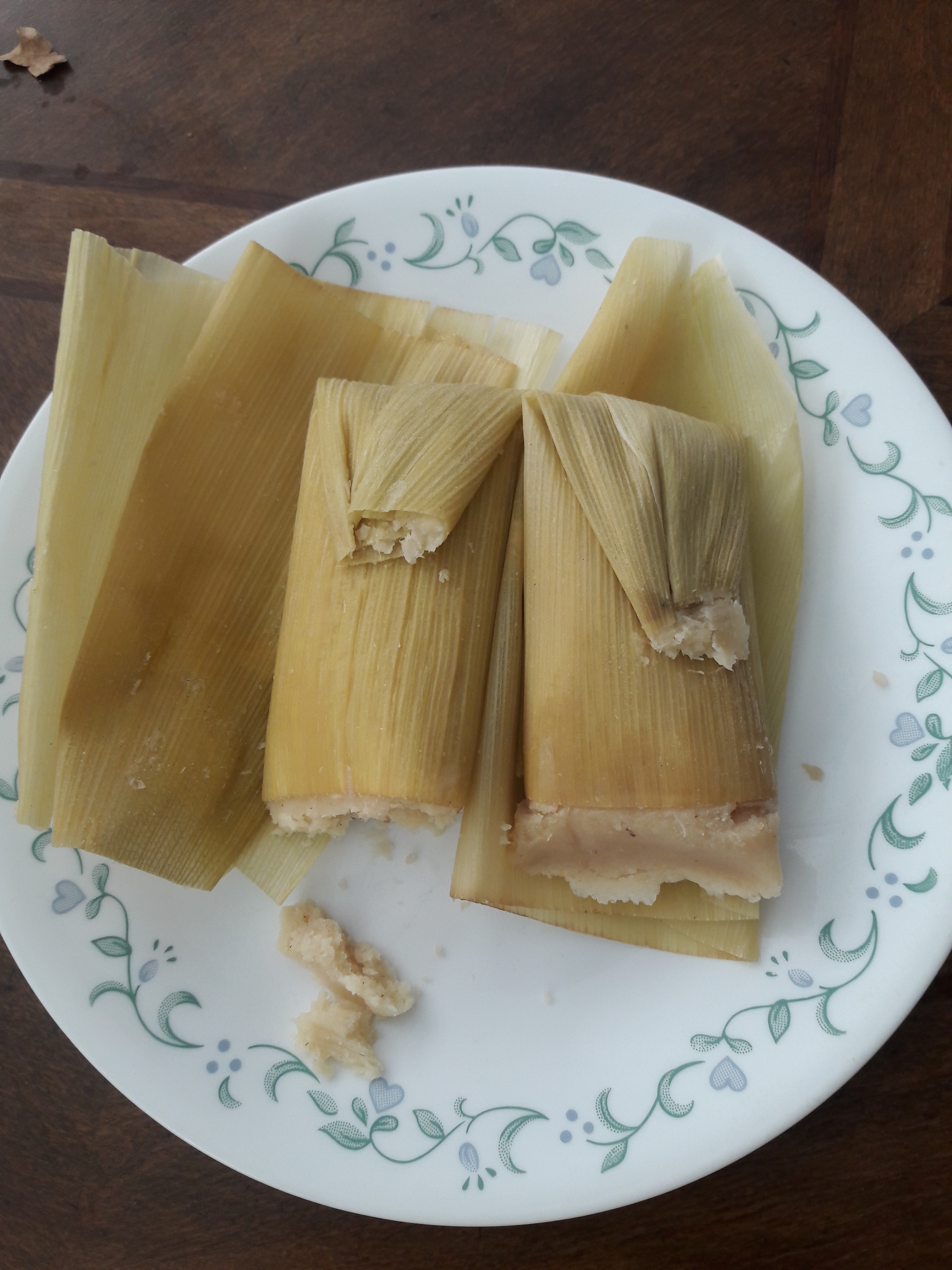 Tamales Mexicanos sweet corn tamales made with young corn and milk